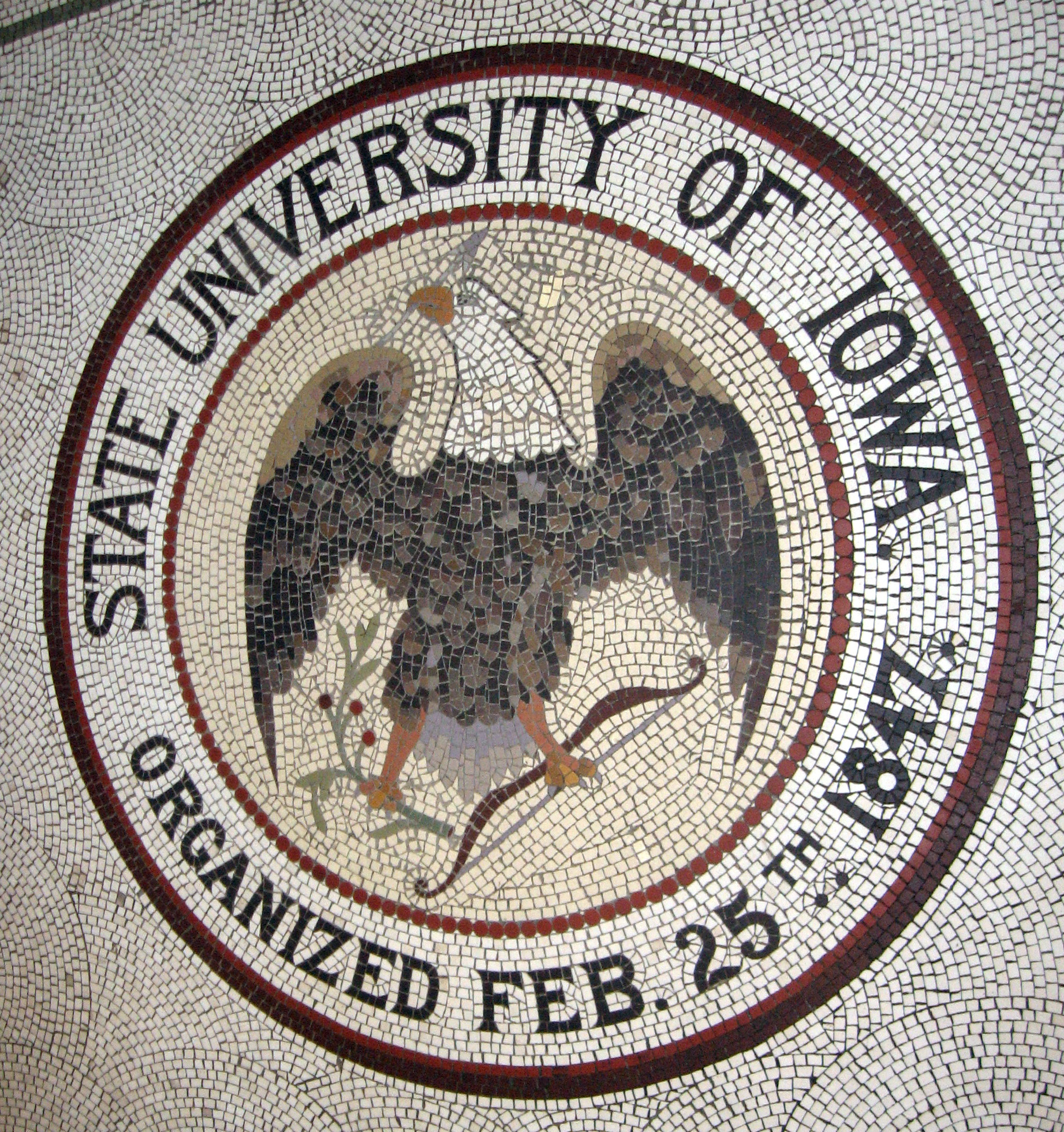 Photo of tile mosaic, Iowa Hall, University of Iowa